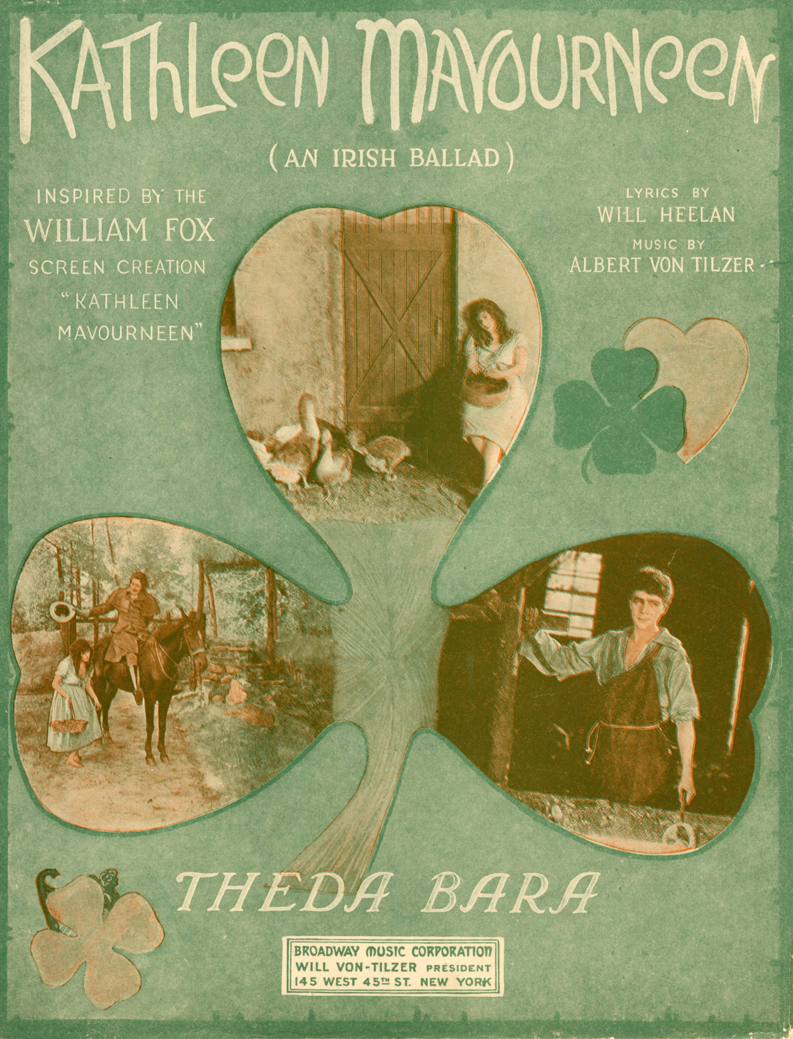 Sheet music cover: "Kathleen Mavourneen" 1 vocal score (3 p.) ; 30 cm. Illustrated cover with image of Theda Bara. Kathleen Mavourneen (Motion picture : 1919)